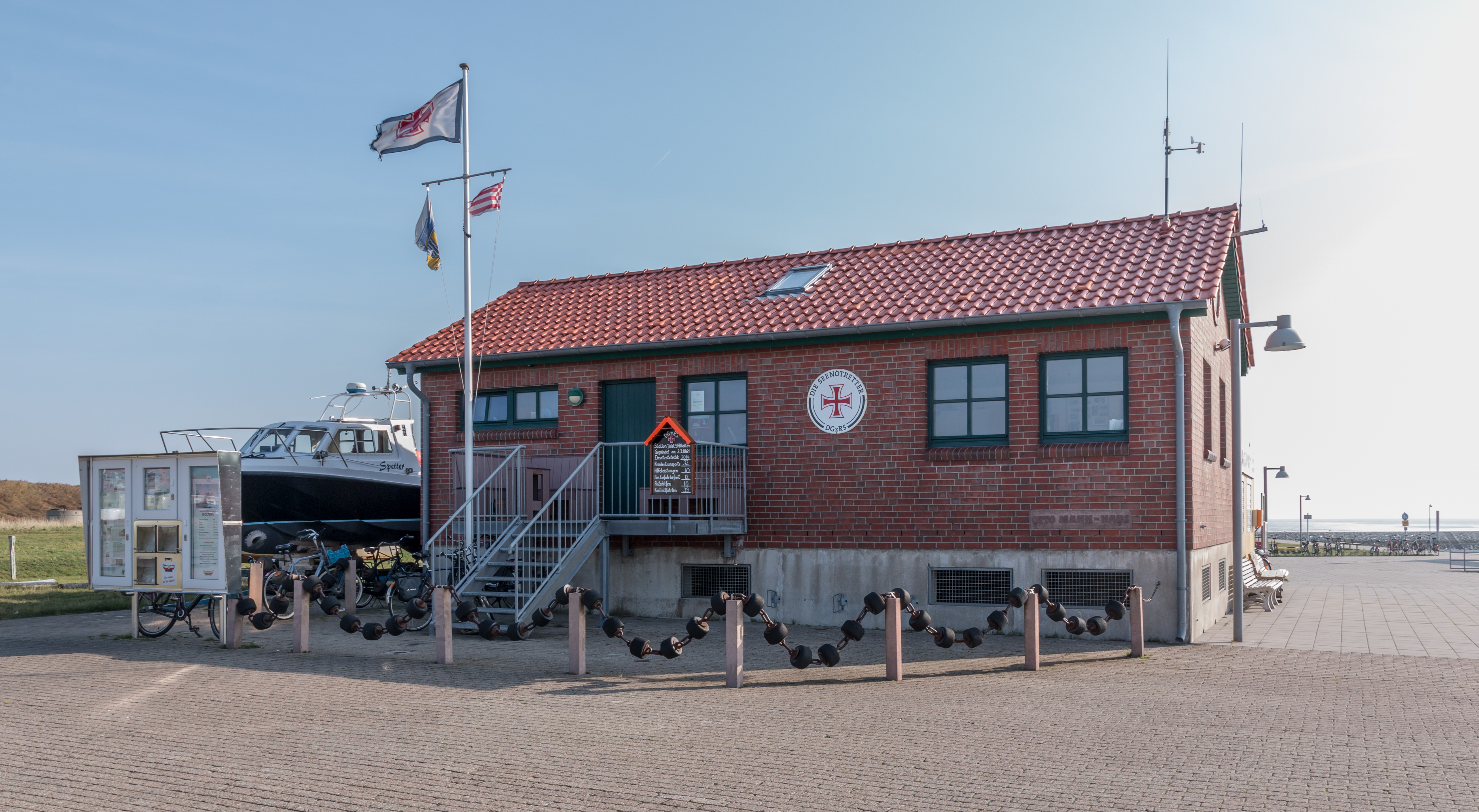 Otto Mann House, Juist, Lower Saxony, Germany